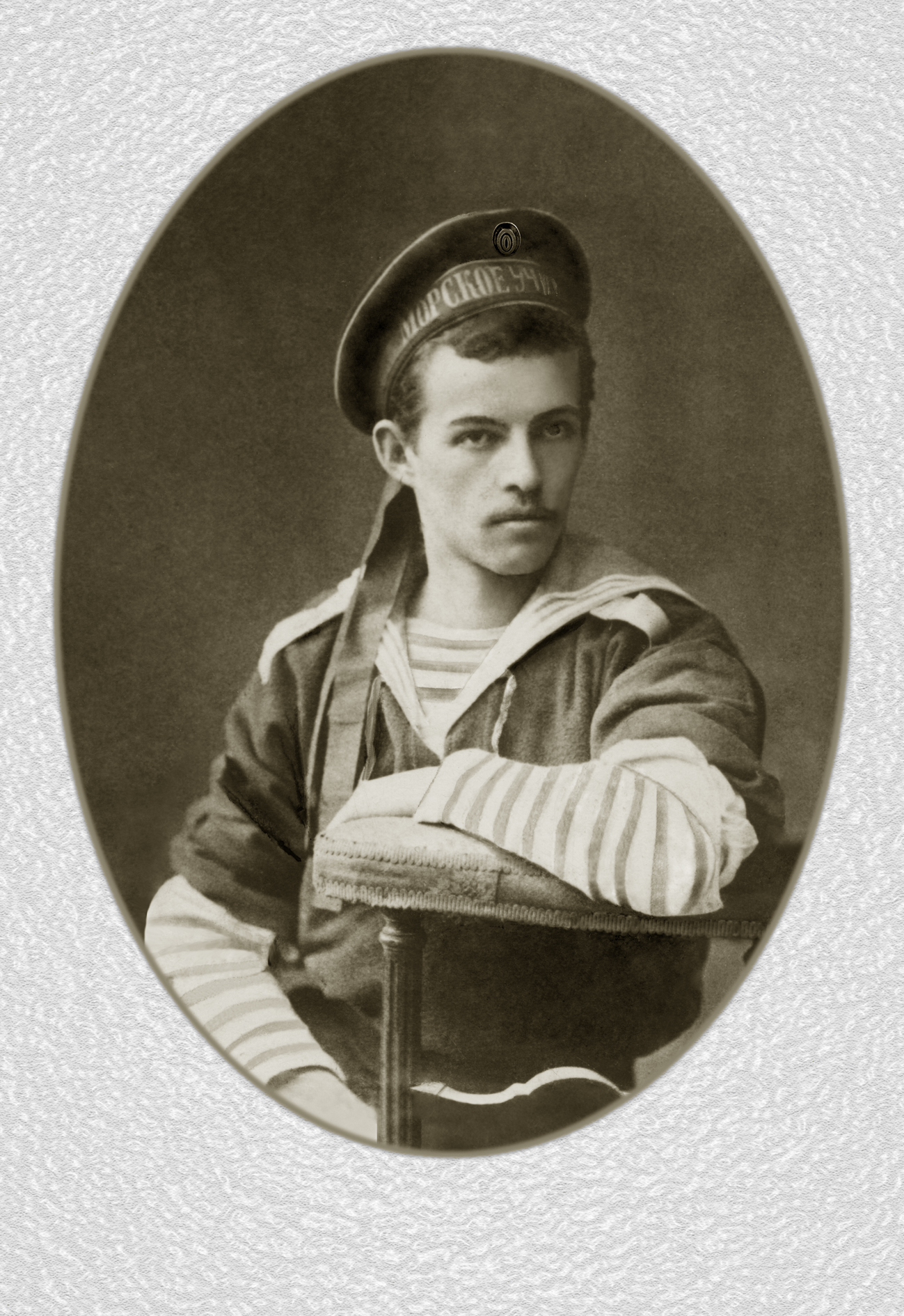 Admiral Koerber Ludwig